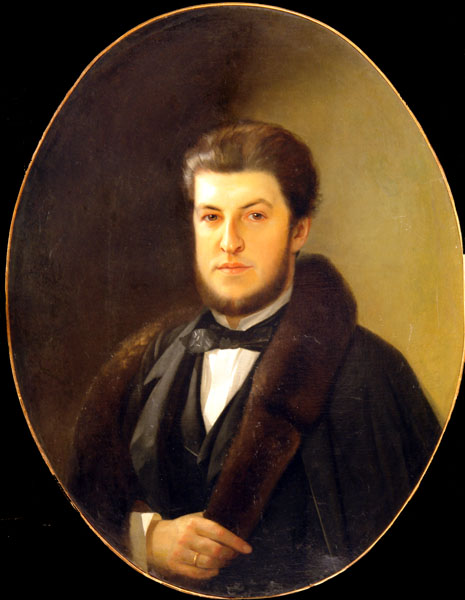 Saltikov-Golovkin Alexey Alexandrovich (1824—1874), prince. Painter: Rokachevsky Afanasiy Efimovich.